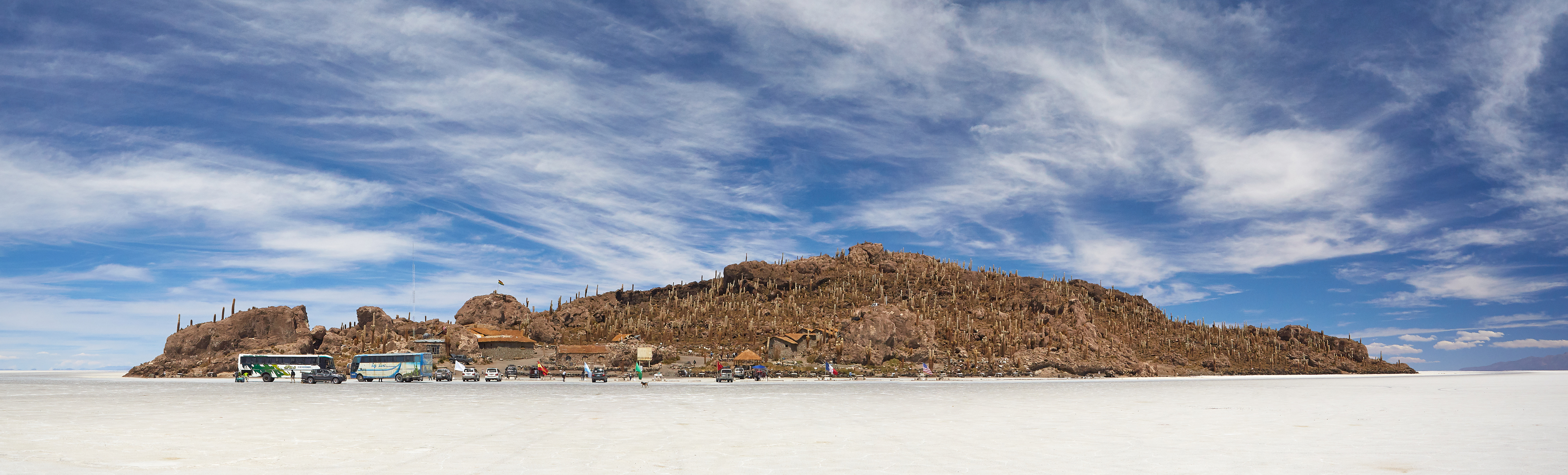 Incahuasi island in the middle of the Salar the Uyuni